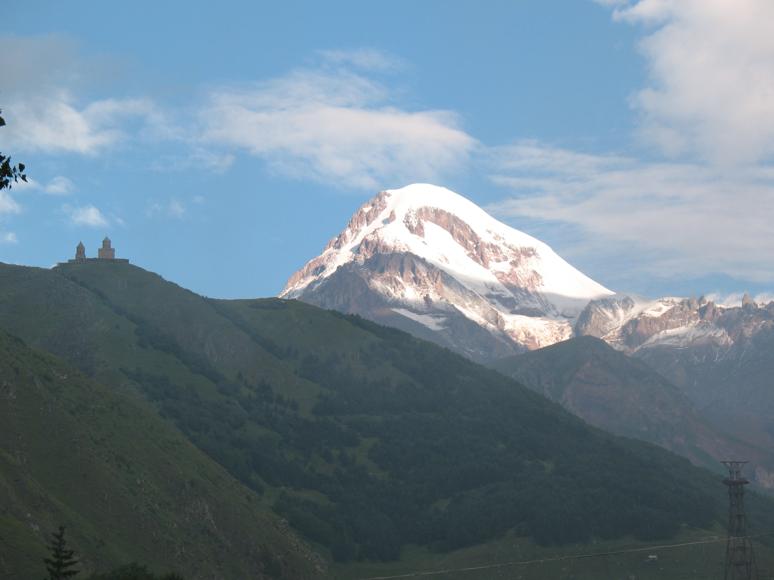 Gergeti Trinity Church (Tsminda Sameba) near Kazbegi, Georgia.